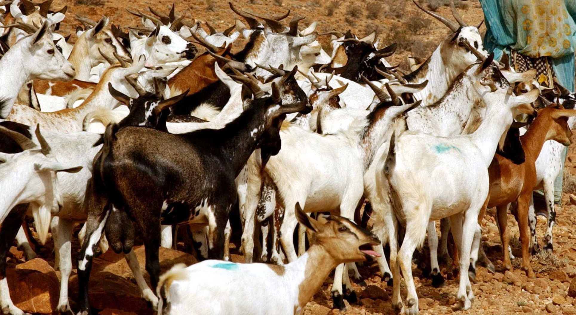 Flock of Somali goats in Ali Sabieh, Djibouti (14 June 2003).